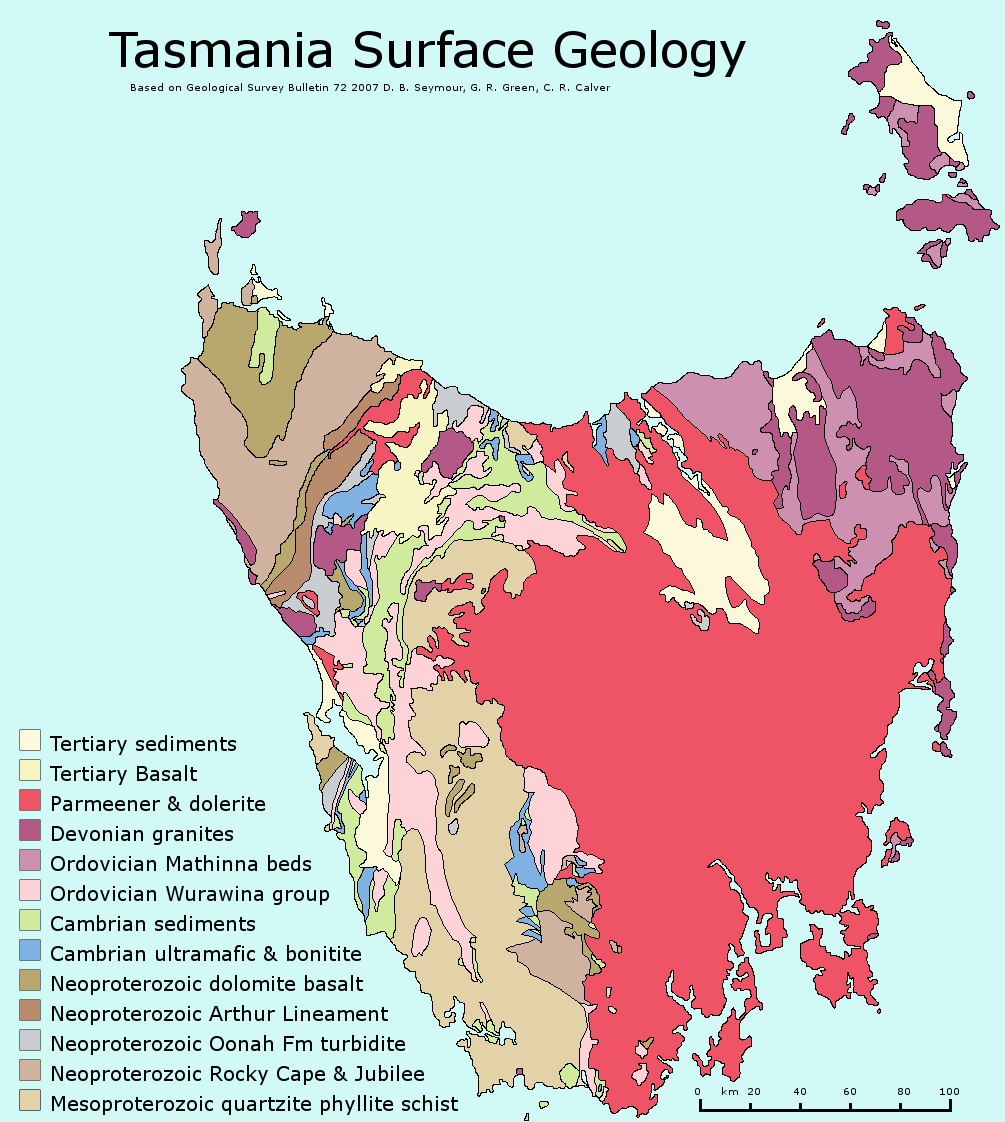 Simplified geological surface rocks of Tasmania